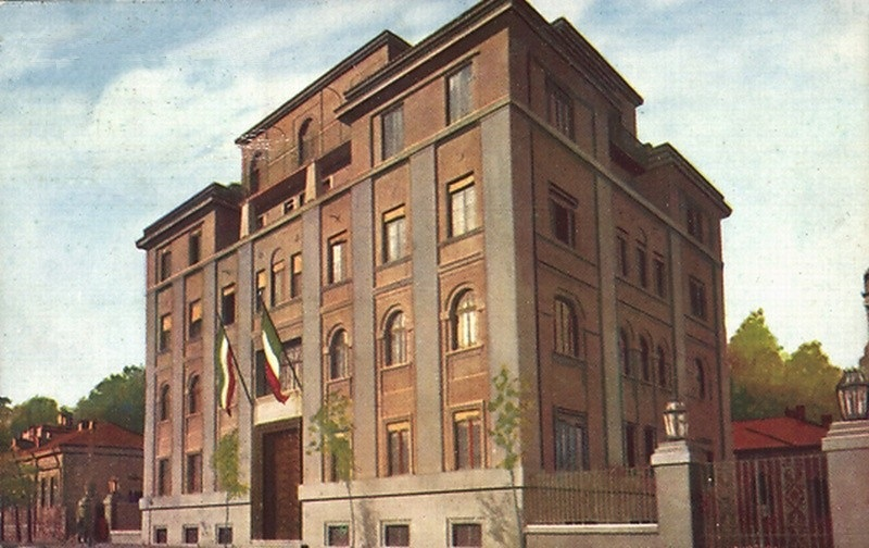 Sofia, Opera Italiana Pro Oriente Building